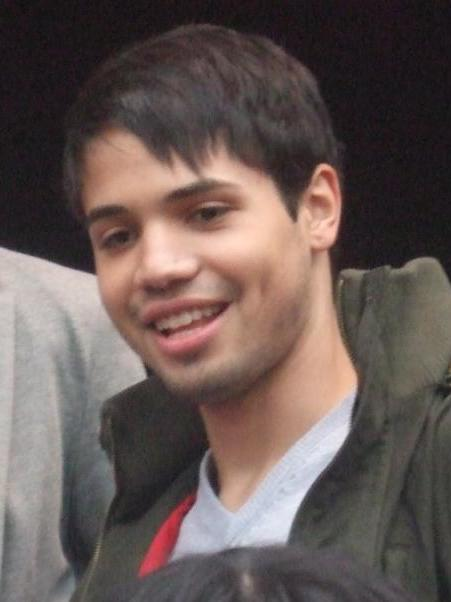 Leonardo Ritzmann from the Band "Some & Any"